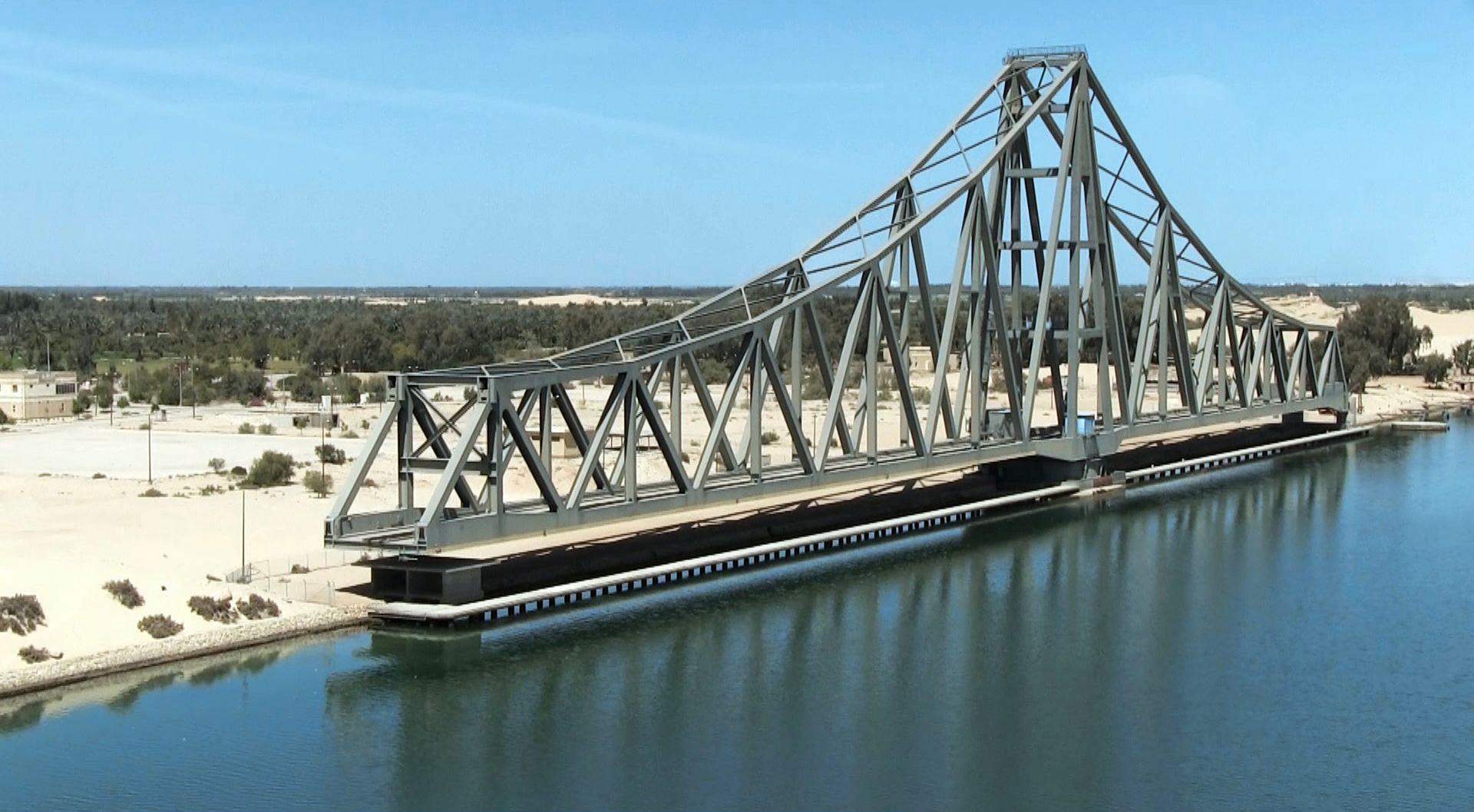 Al Ferdan Railway Bridge